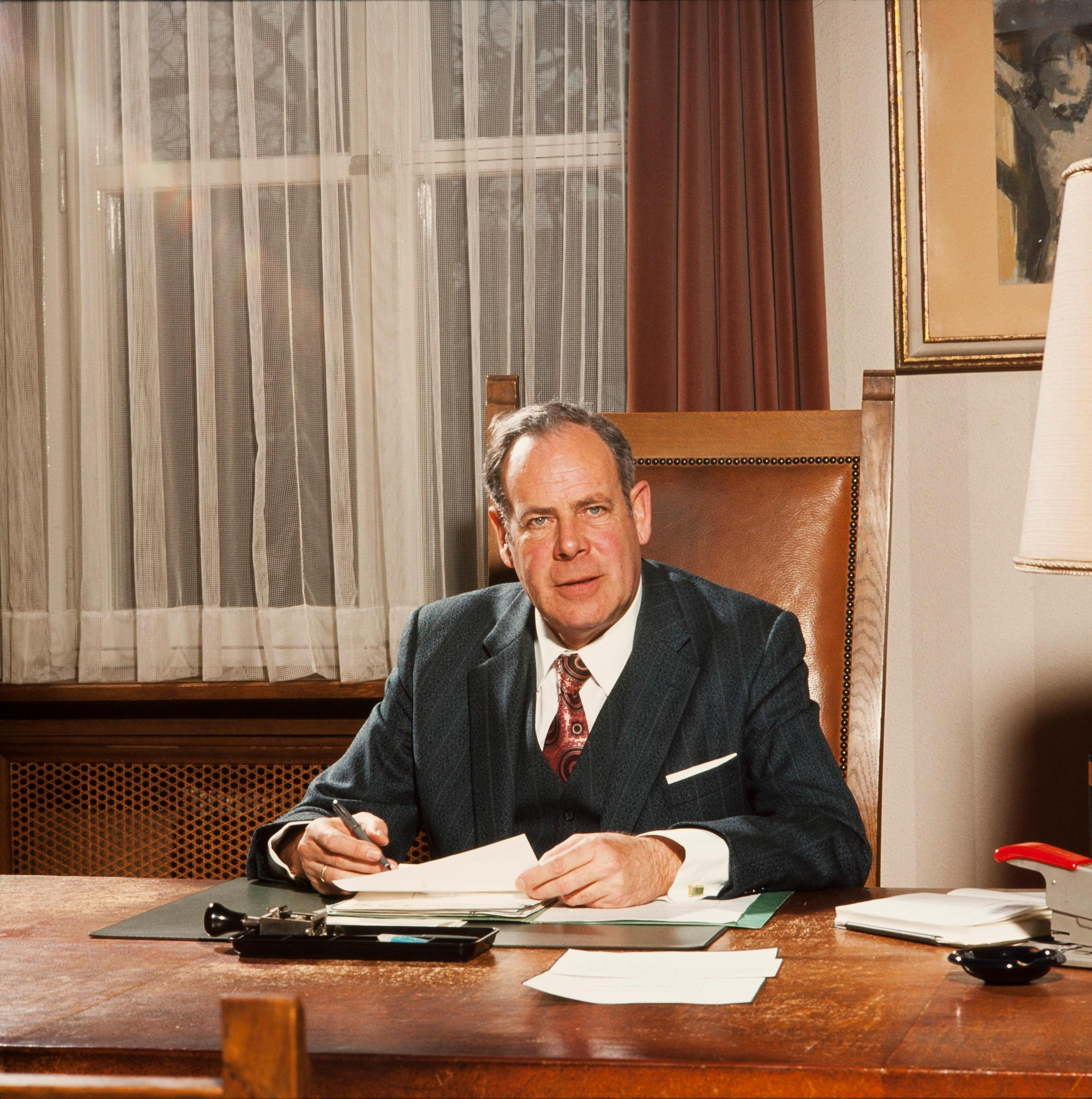 Karl Bohle was an Austrian politician, who was mayor of the city of Dornbirn from 1965 to 1983. On this picture he can be seen sitting in his office at the town hall of Dornbirn in the year 1975.